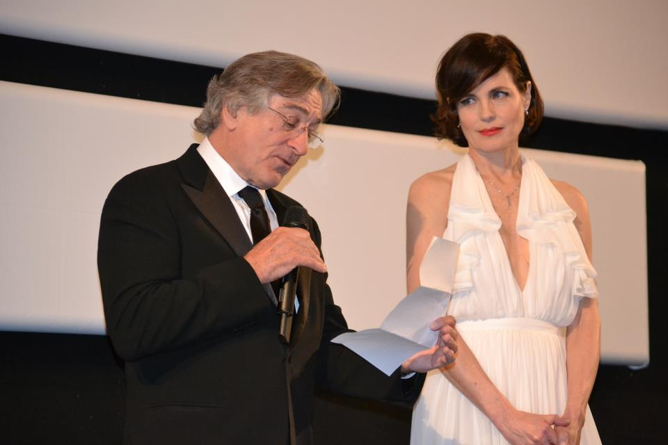 Robert De Niro and Elizabeth McGovern at the screening of the restored version of "Once upon a time in America" at the Cannes Film Festival